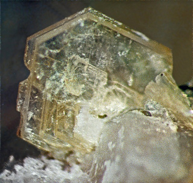 Sabinaite (FOV 2.3 x 2.2 mm) Locality: Poudrette quarry (Demix quarry; Uni-Mix quarry; Desourdy quarry; Carrière Mont Saint-Hilaire), Mont Saint-Hilaire, Rouville RCM, Montérégie, Québec, Canada Description: Found May 1997. MOB coll. Two xls growing back to back with a slight offset - not a bevel. Old single focus film shot - rather grainy.